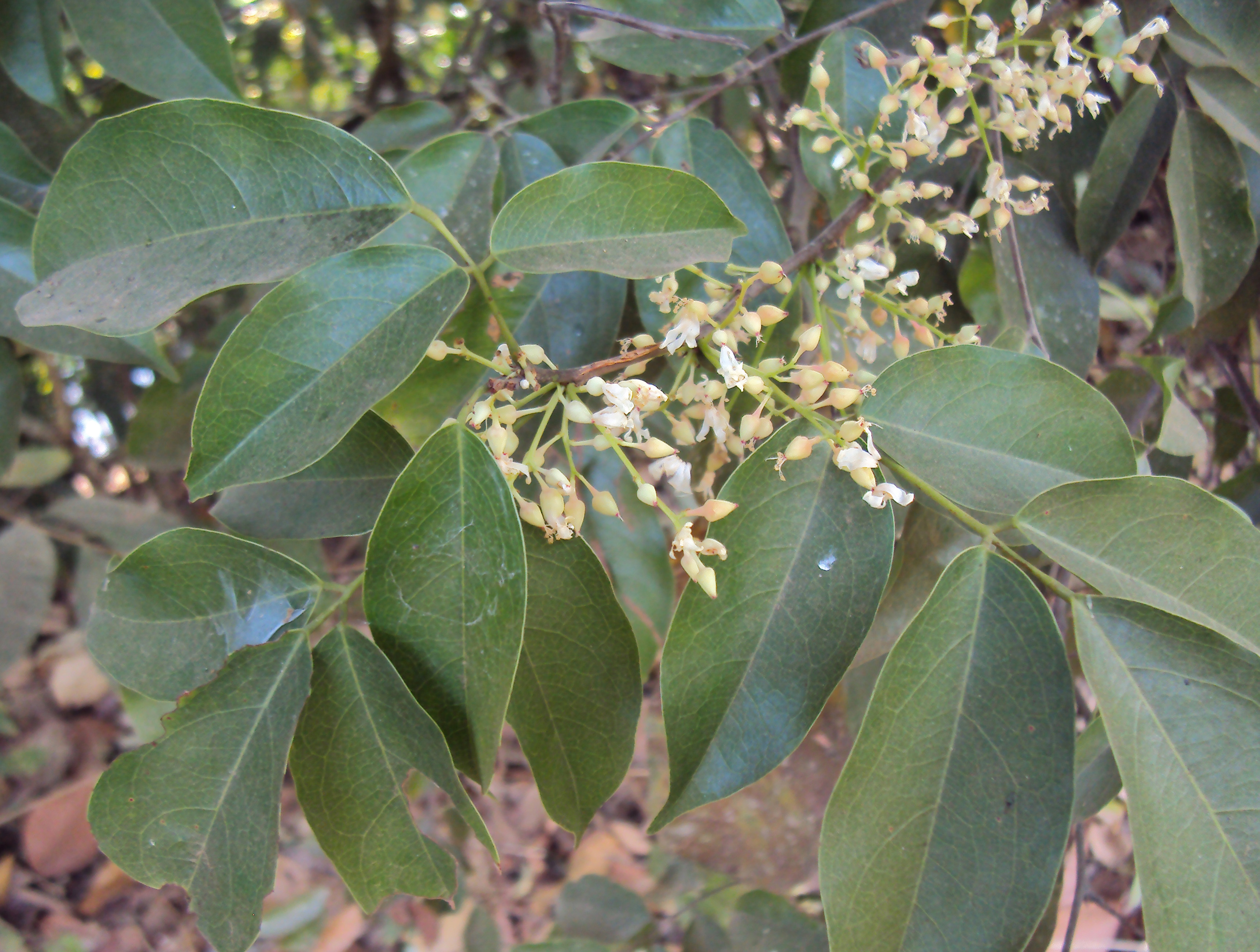 Connarus wightii